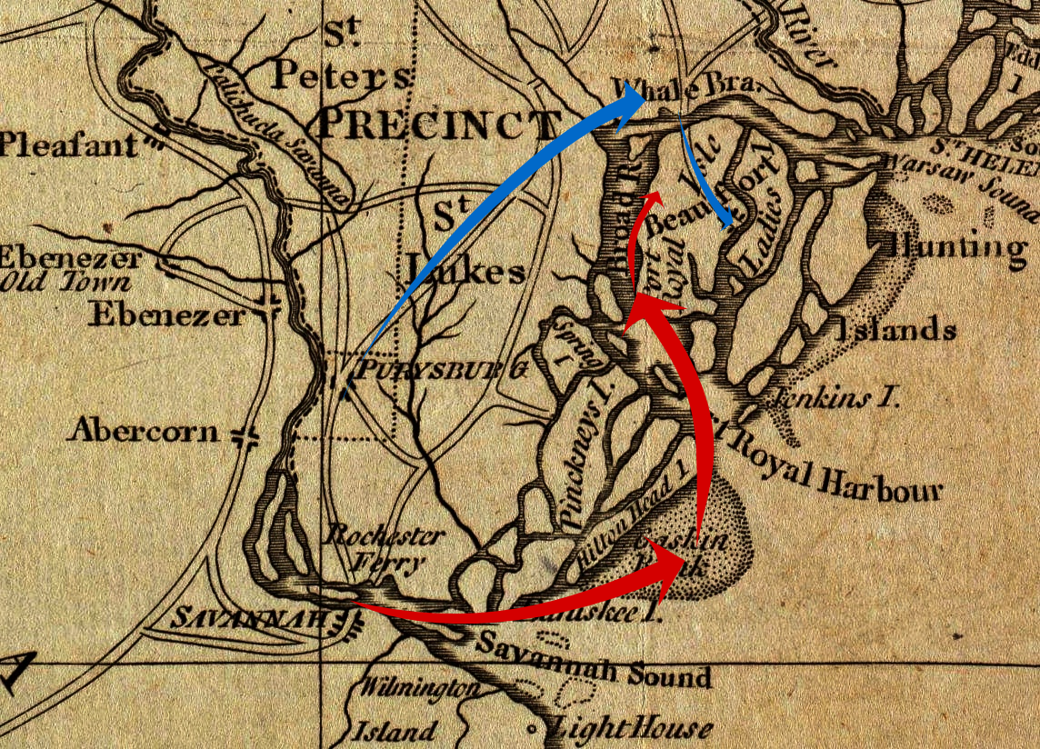 A period map annotated to show military movements prior to the 1779 Battle of Beaufort, South Carolina. American movements are in blue, British movements in red.